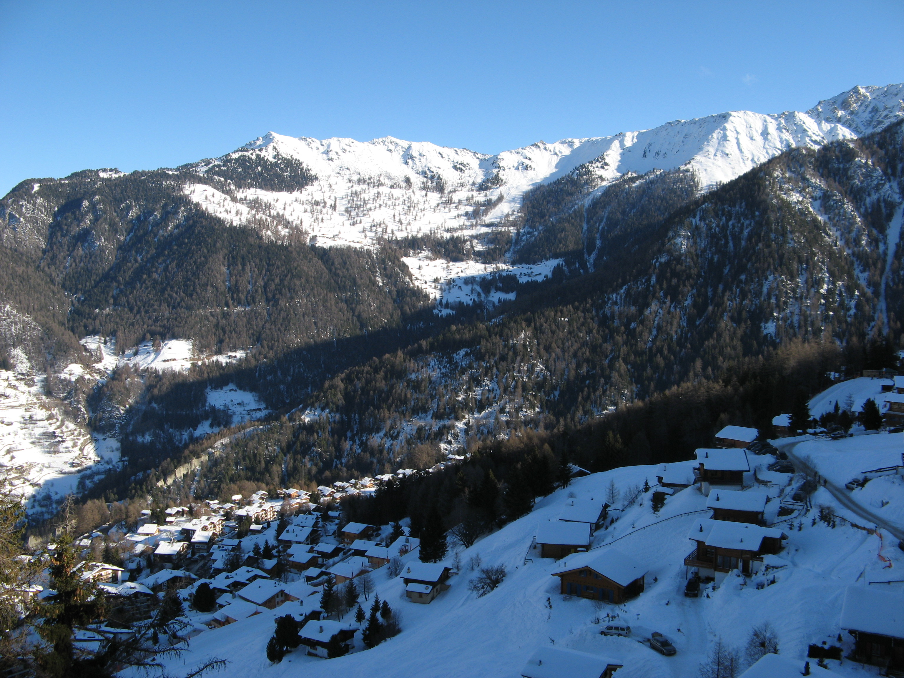 Sledging at La Tzoumaz resort, in Riddes, Valais, Switzerland.